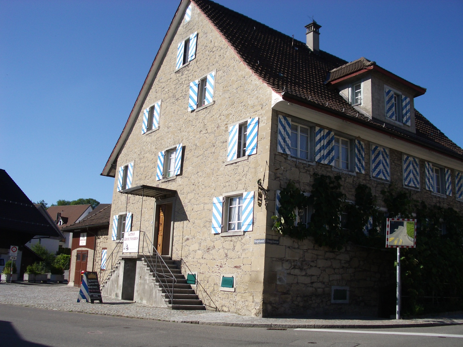 Uster ZH, Switzerland